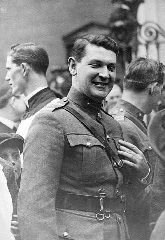 Michael Collins on 12 August 1922, ten days before his death.